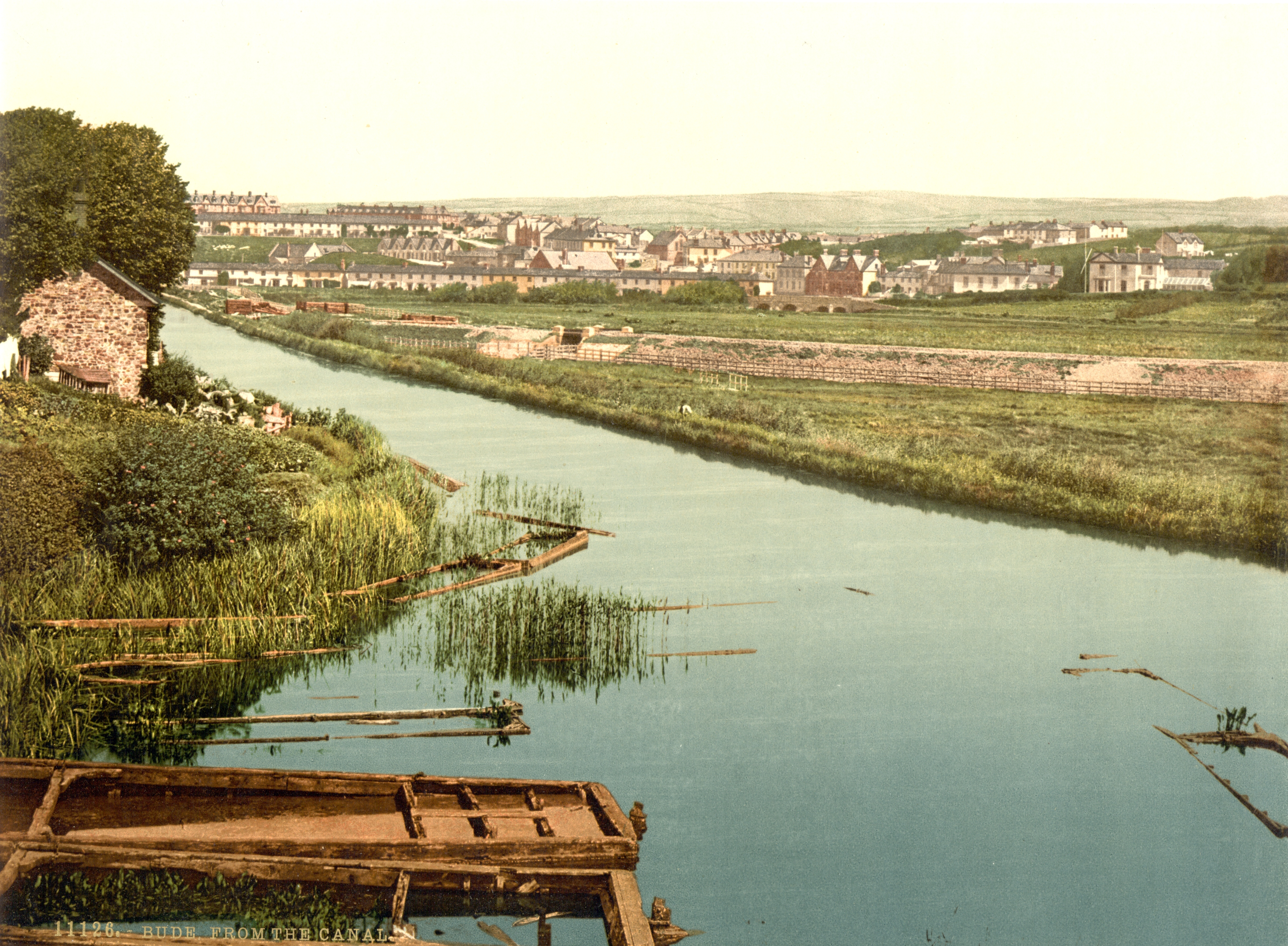 Photochrome of half sunken tub boats in the bude canal